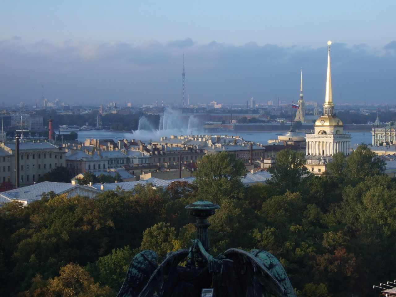 View from the Colonnade, St Isaac's Cathedral, St Petersburg